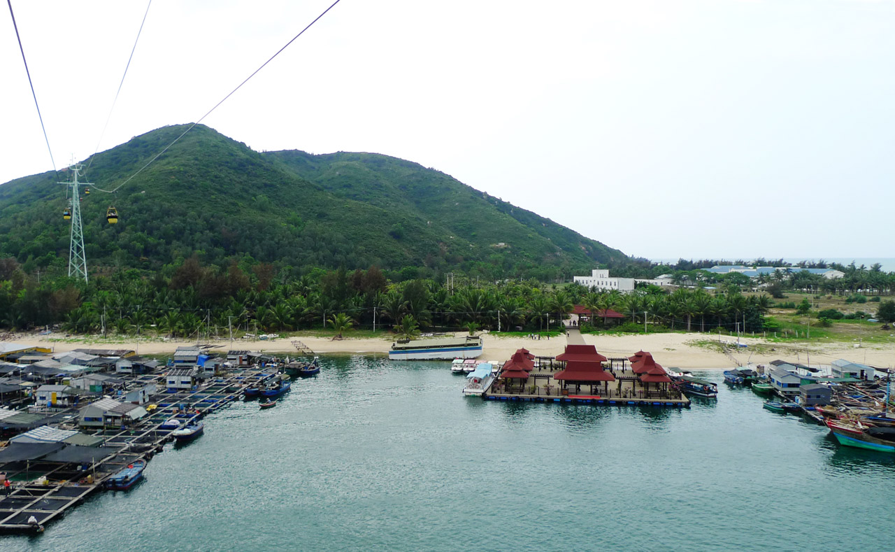 Nanwan Monkey Island, Hainan Province, People's Republic of China